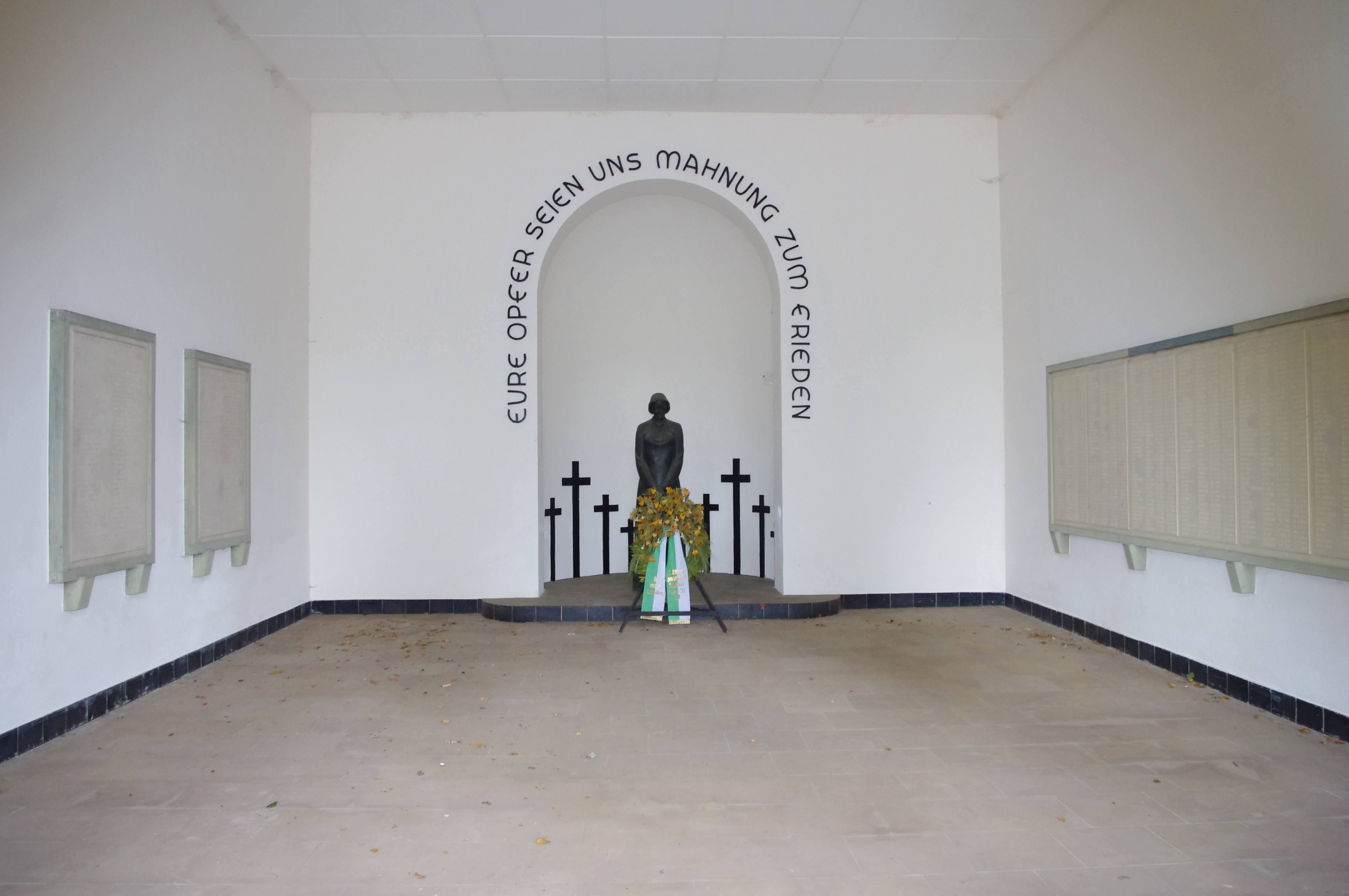 Building in park of Schloss Stietencron, Bad Salzuflen-Schoetmar, Germany, Interieur (near Schlossstrasse)